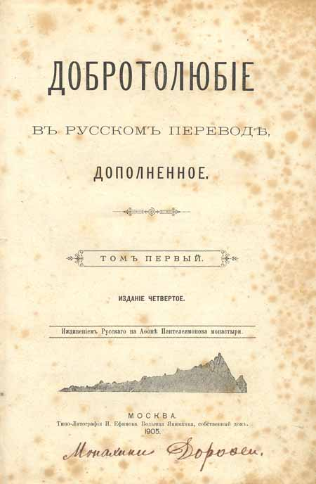 Philokalia (Moscow, 1905